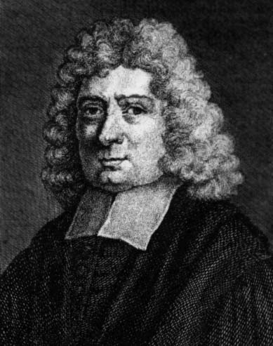 Hermann Witsius.